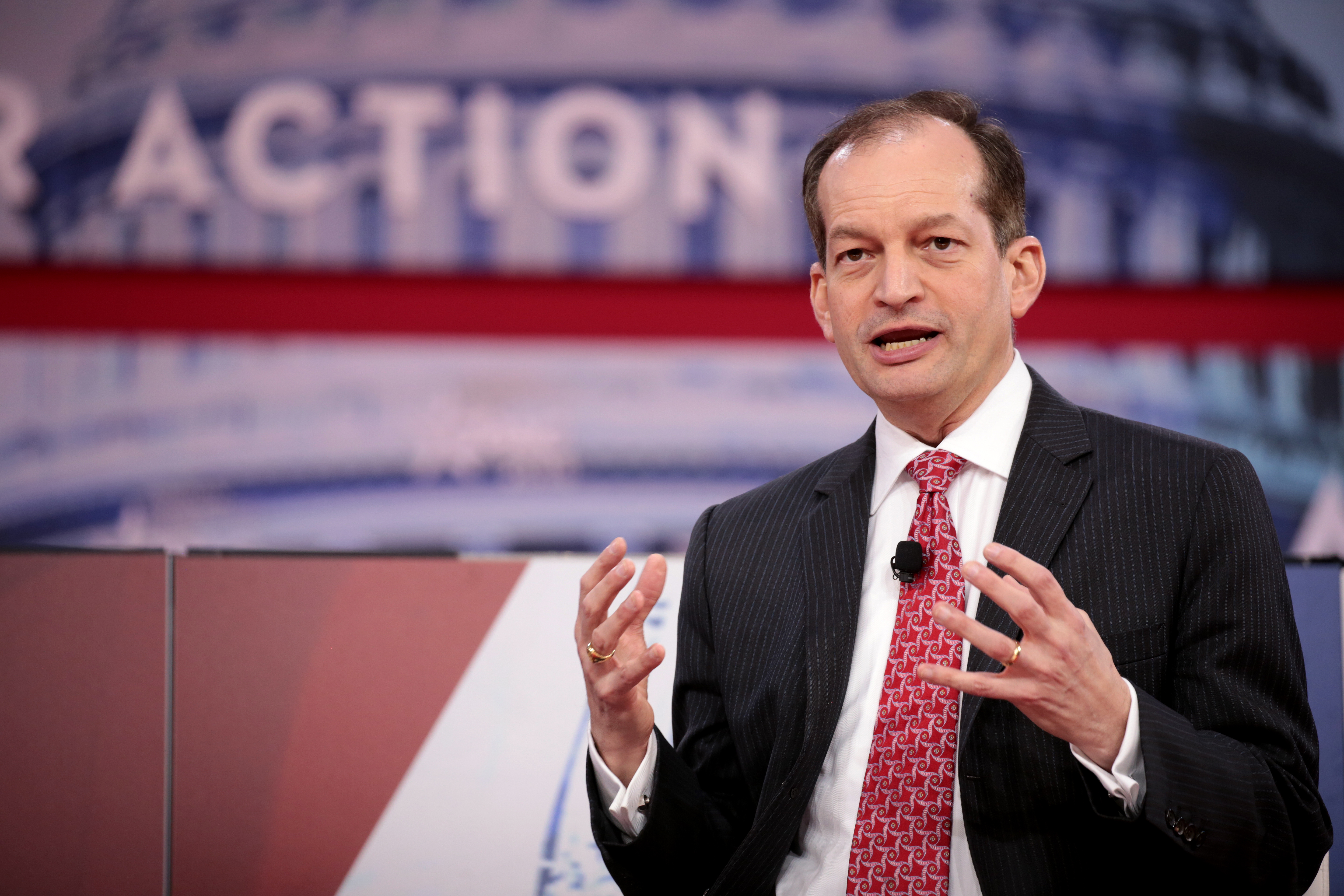 U.S. Secretary of Labor Alexander Acosta speaking at the 2018 Conservative Political Action Conference (CPAC) in National Harbor, Maryland.